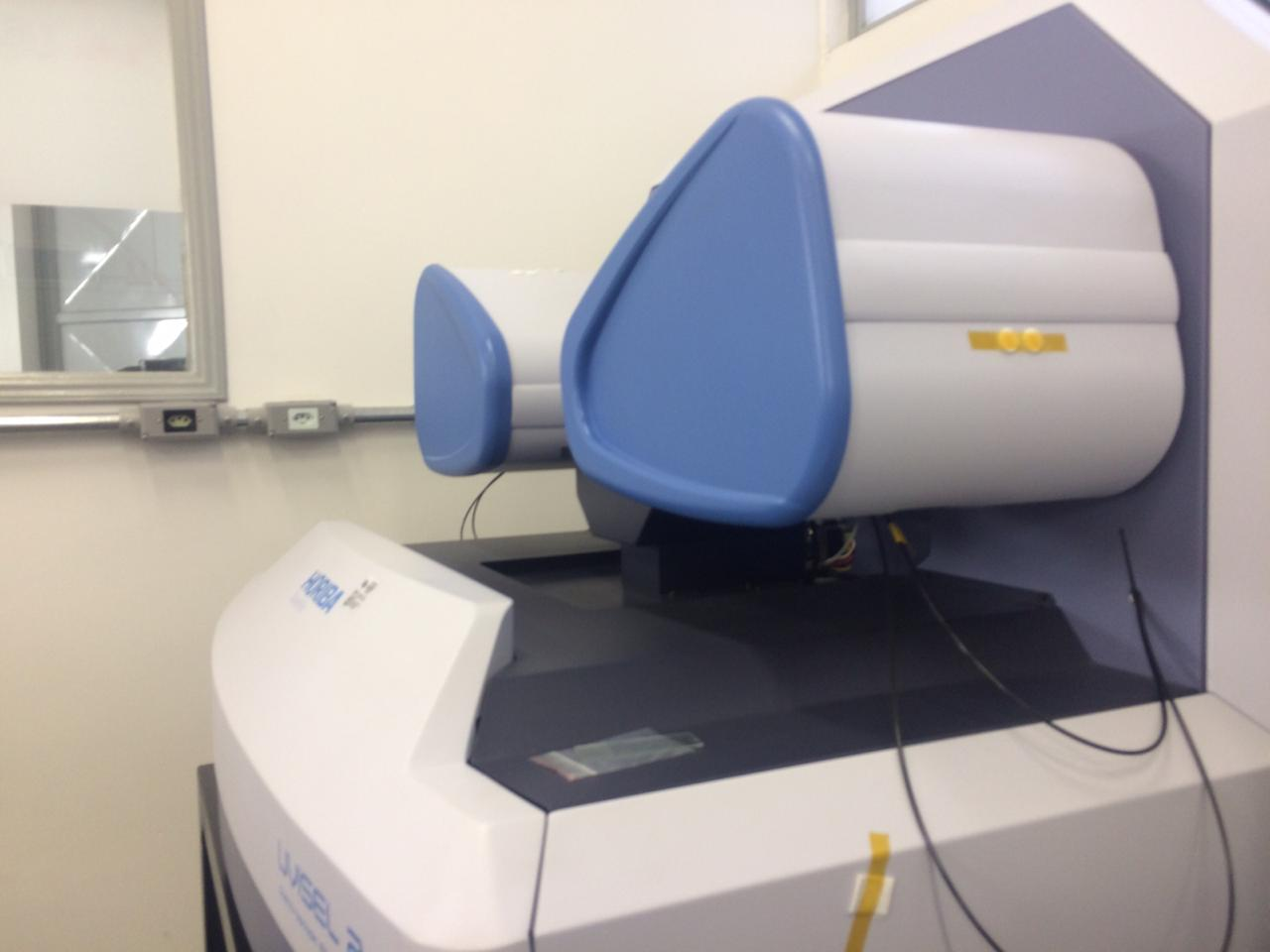 An ellipsometer located ate LPP - ITA in São José dos Campos, Brazil